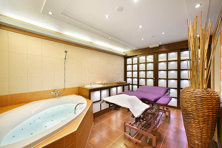 Massage room - Wellness Center Zlatá Hvězda Třeboň